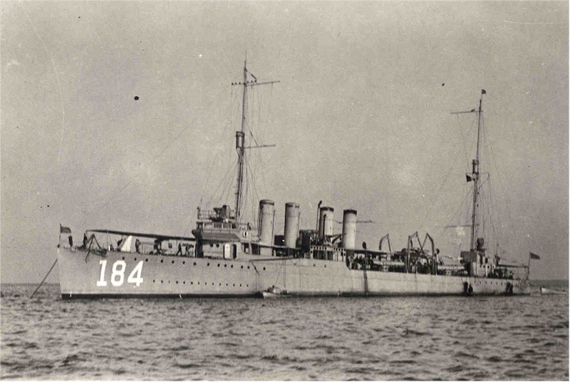 The U.S. Navy destroyer USS Abbot (DD-184) on 15 November 1919.